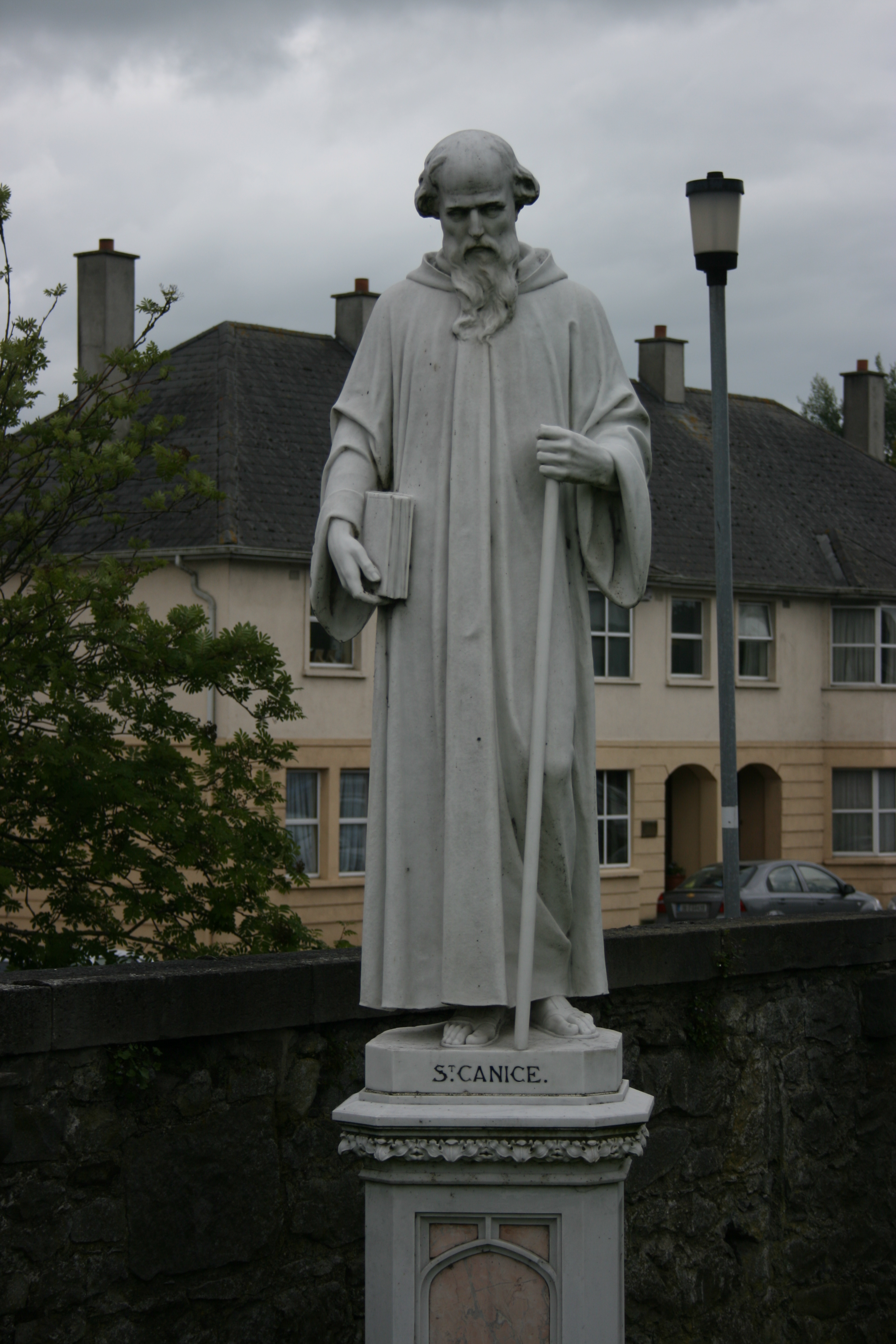 Statue of Saint Canice, Catholic St.Canice Church, Kilkenny, Ireland